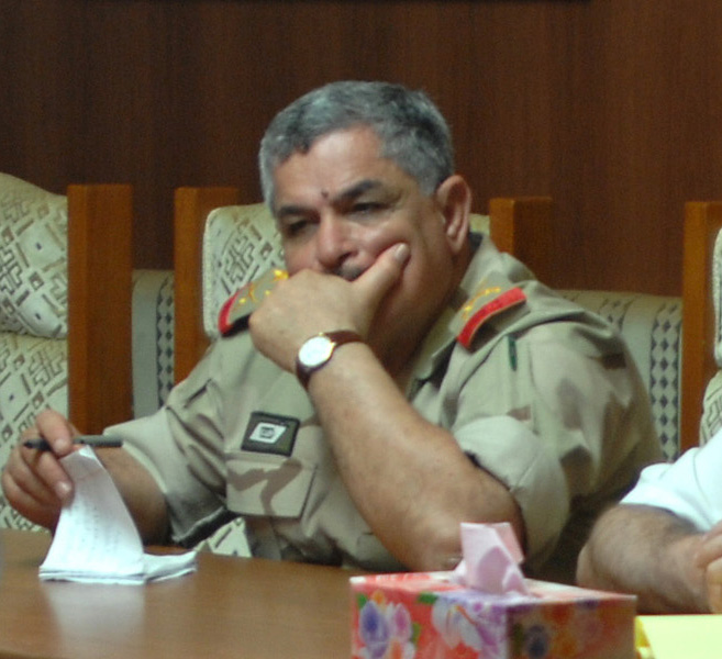 Iraqi Gen. Mohan al-Furayji, Senior Military Advisor in a conference room inside the Kirkuk Government Building, during an engagement with Kirkuk provincial leaders Kirkuk, Iraq August 5, 2008.